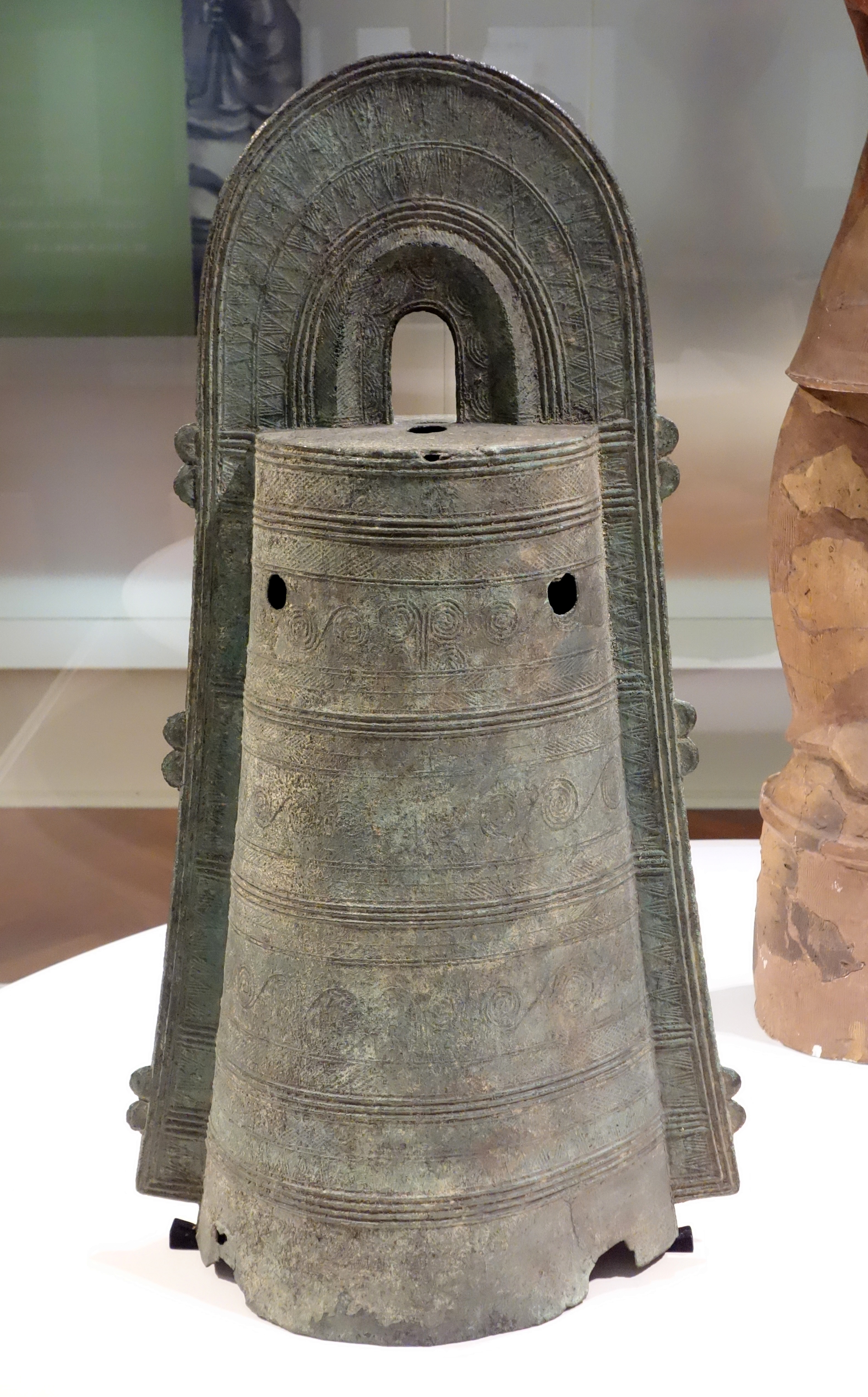 Exhibit in the Tokyo National Museum, Tokyo, Japan. This artwork is old enough so that it is in the public domain.